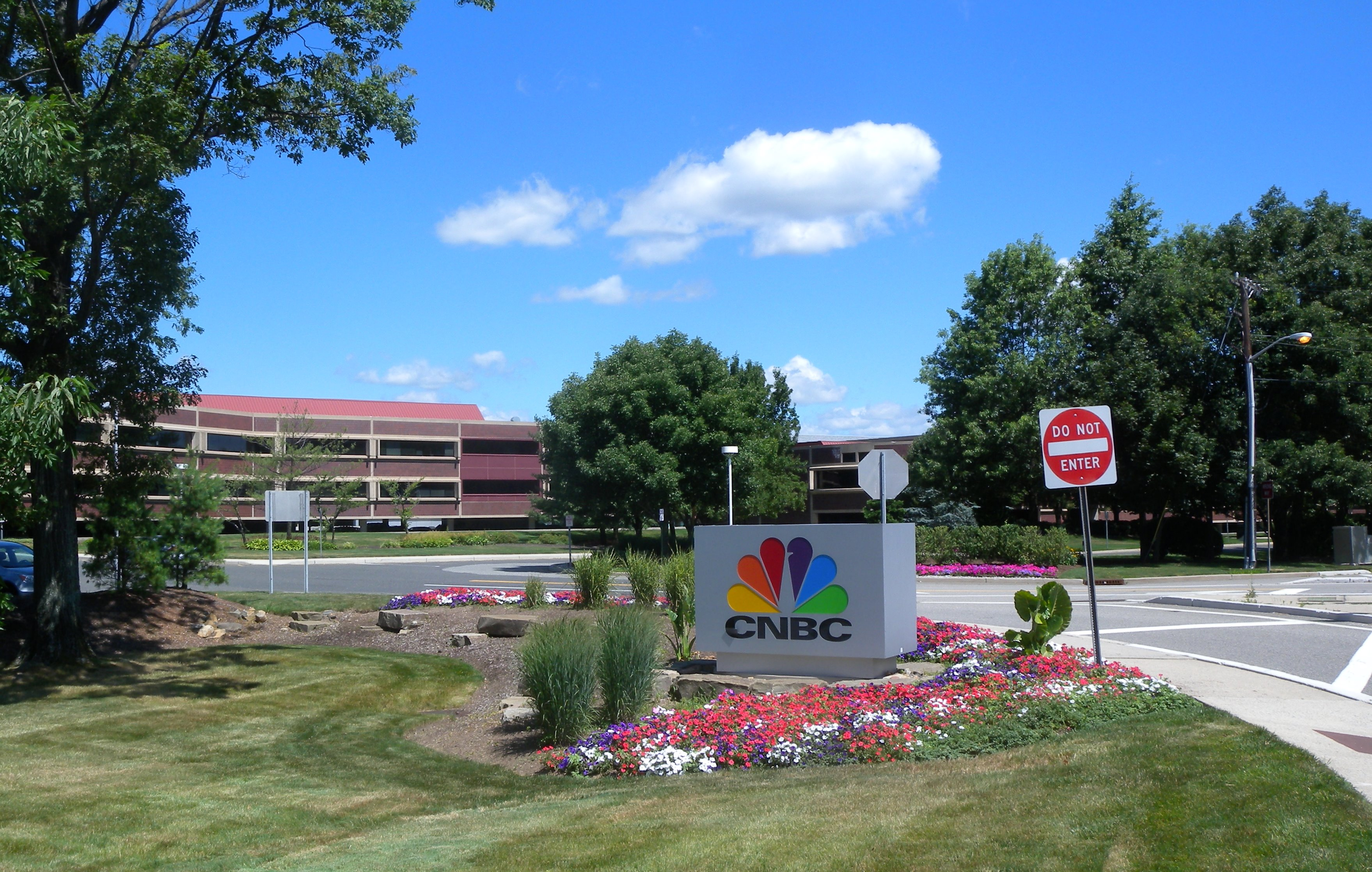 Looking north at entrance of CNBC on a sunny late morning.